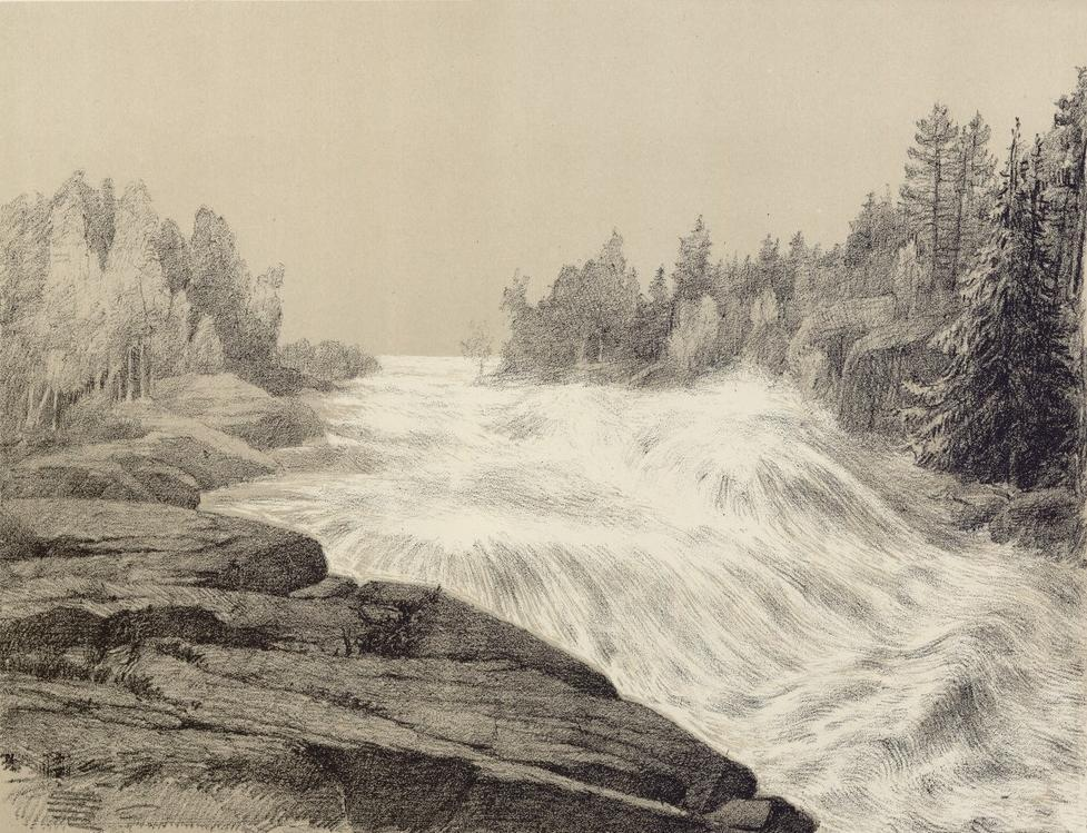 Imatra rapids flowing free in the 19th century